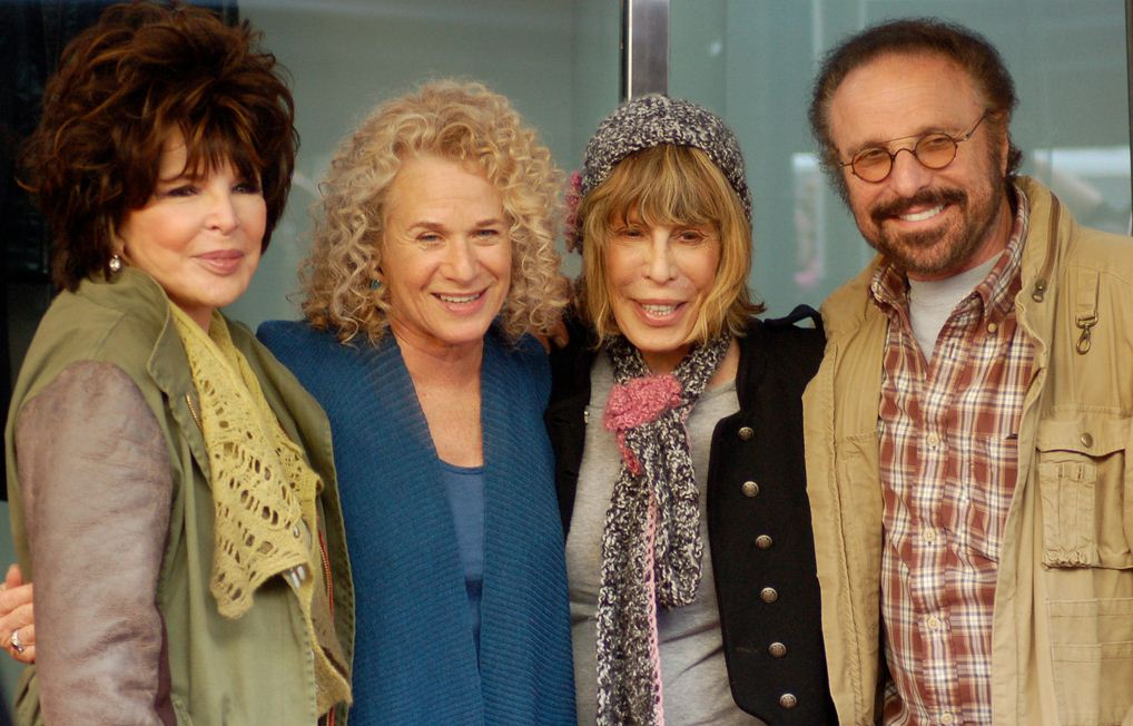 Carole Bayer Sager, Carole King, Cynthia Weil, and Barry Mann at a ceremony for King to receive a star on the Hollywood Walk of Fame.